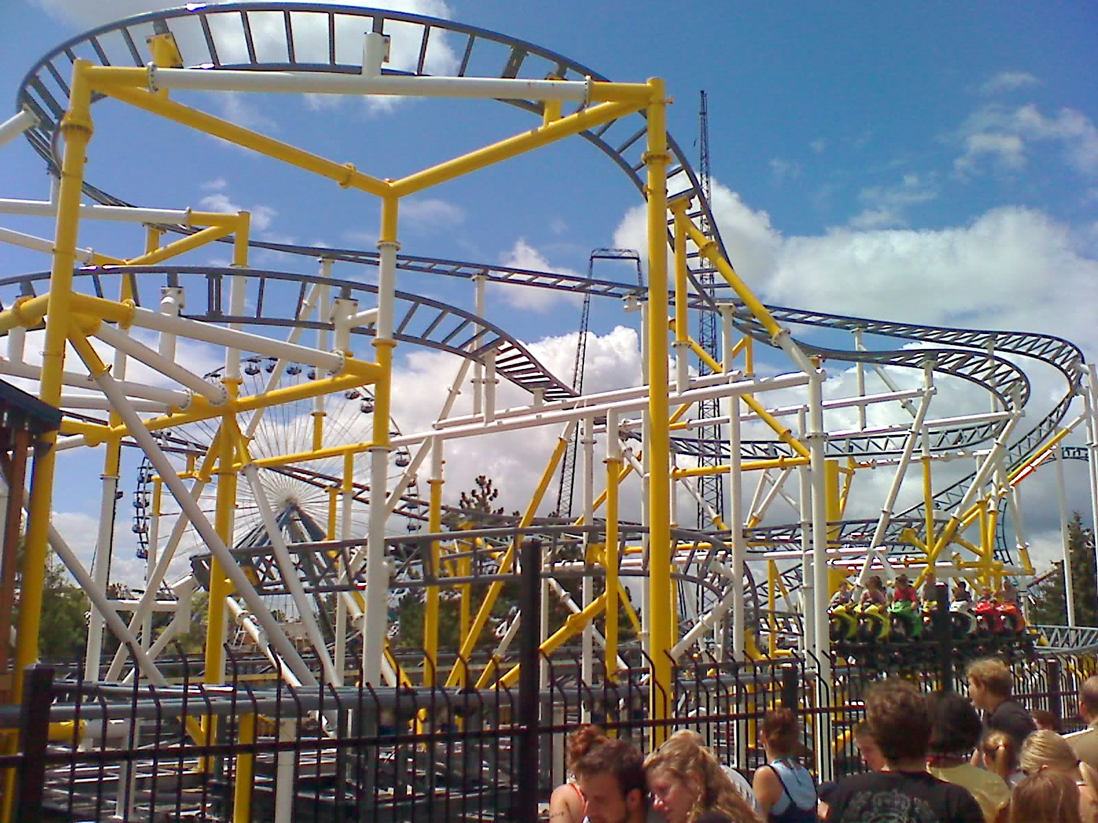 Picture of the Orange County Choppers MotoCoaster, a Zamperla Motocoaster, located at the Darien Lake Theme Park Resort.